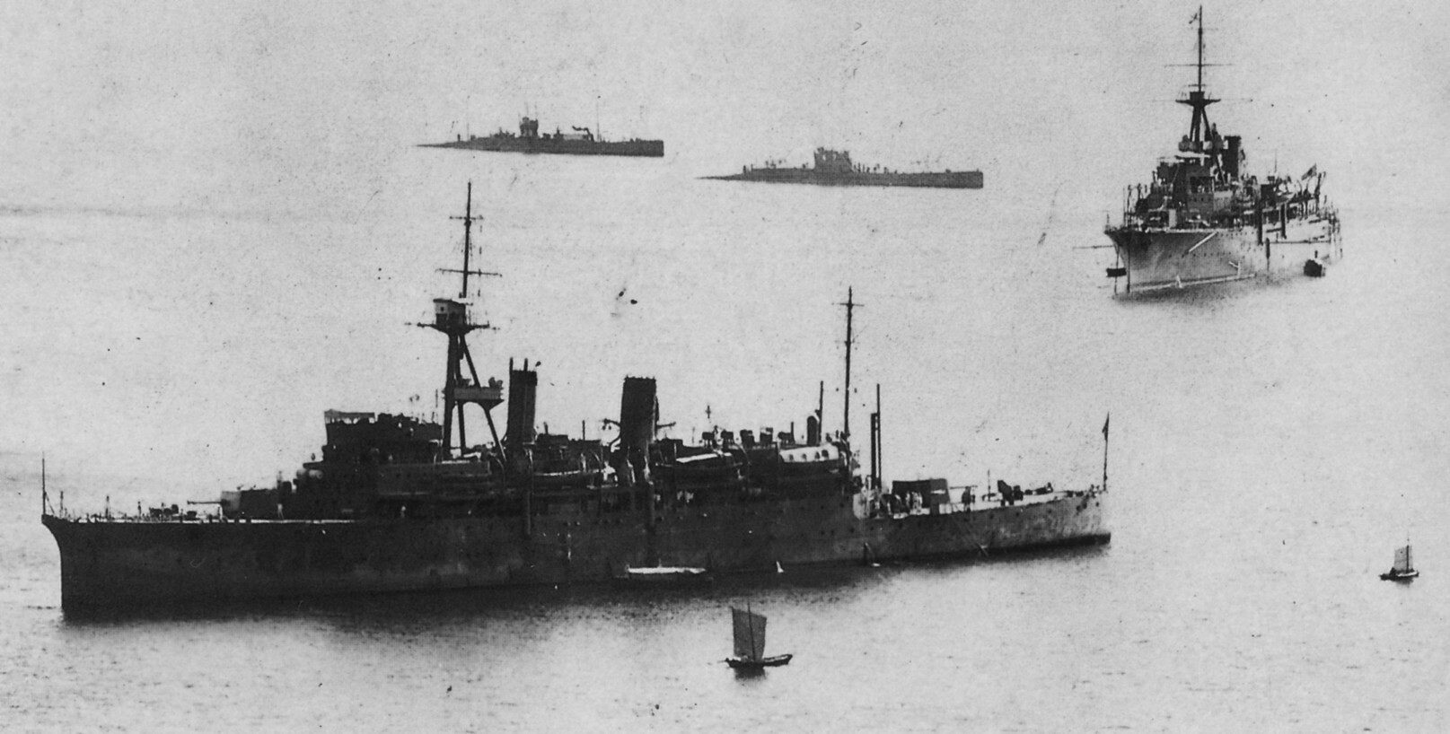 Imperial Japanese Navy Submarine tenders Chogei and Jingei, No.47 Submarine and No.28 Submarine (this side to counterclockwise)